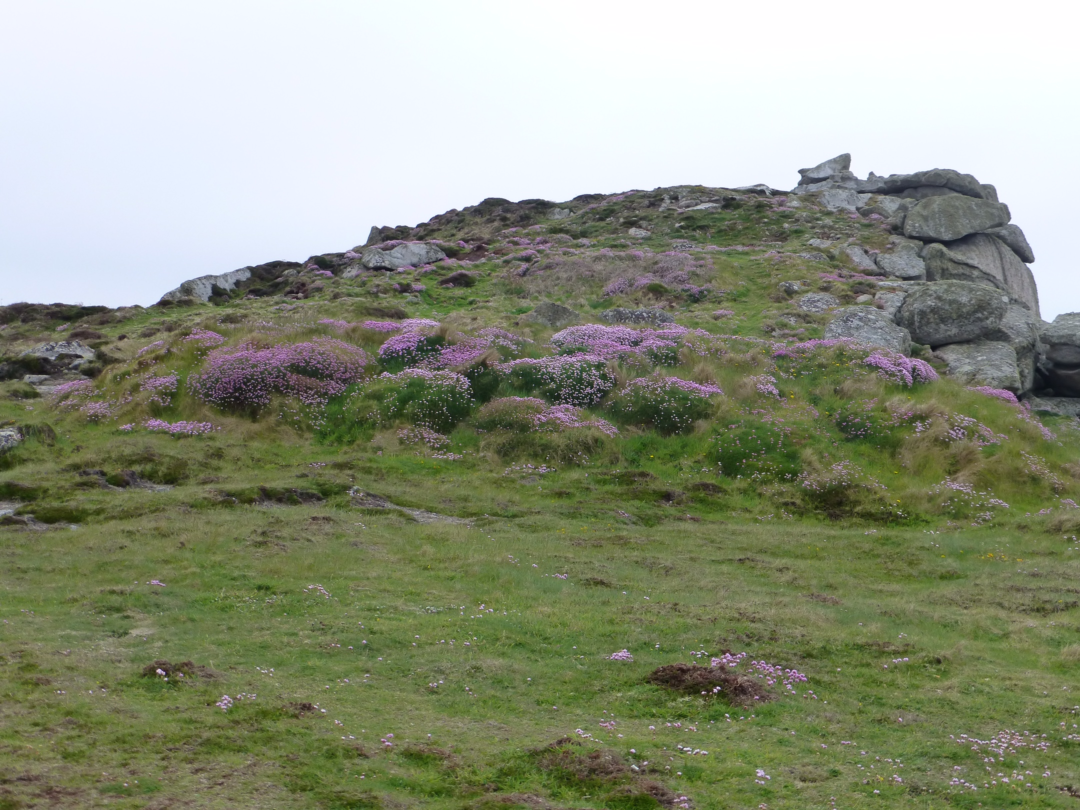 Atlas of Hillforts 1144. Giant's Castle, St Mary's, Isles of Scilly. Jun 2013